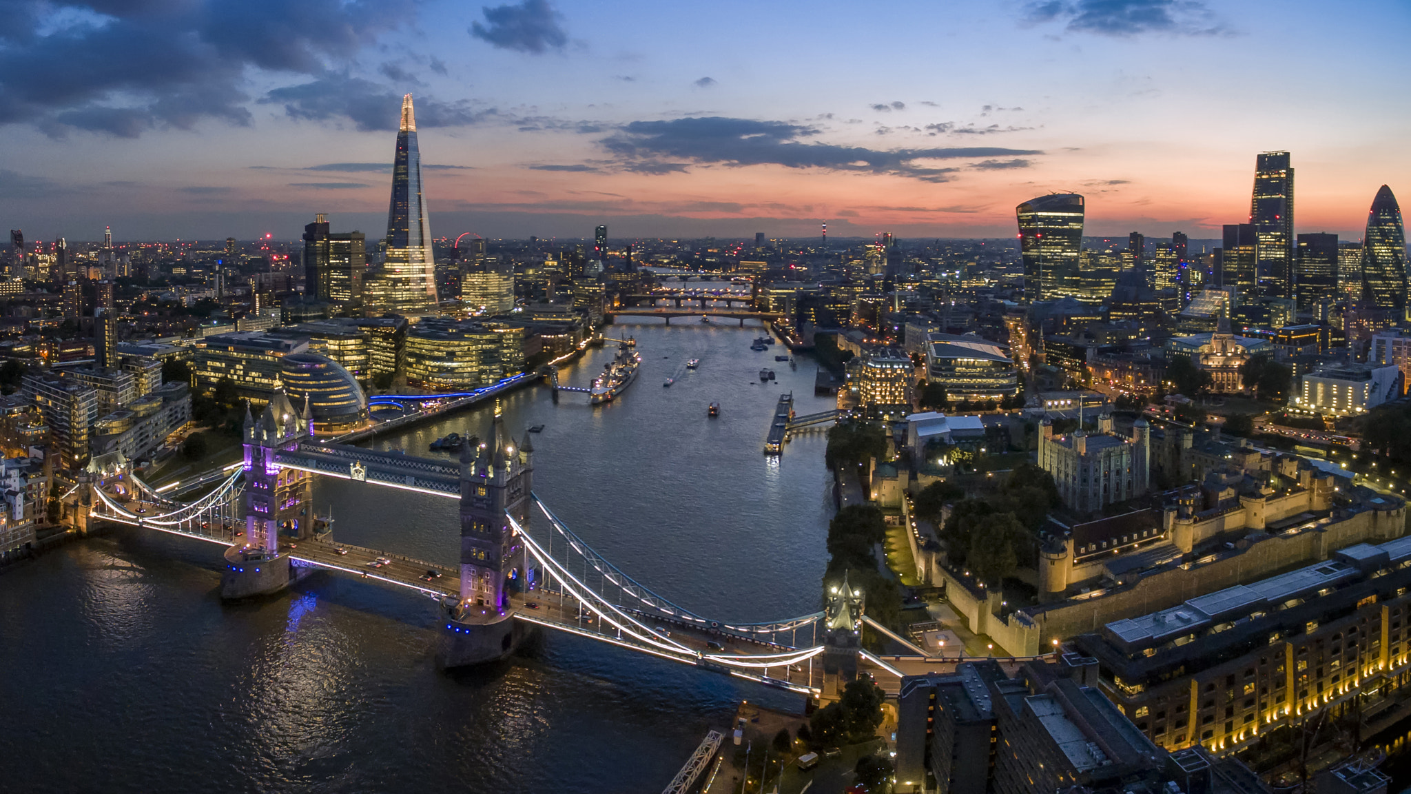 500px provided description: London Skyline [#sunset ,#architecture ,#cityscape ,#london ,#uk ,#skyline ,#financial district ,#thames ,#london bridge ,#london shard]